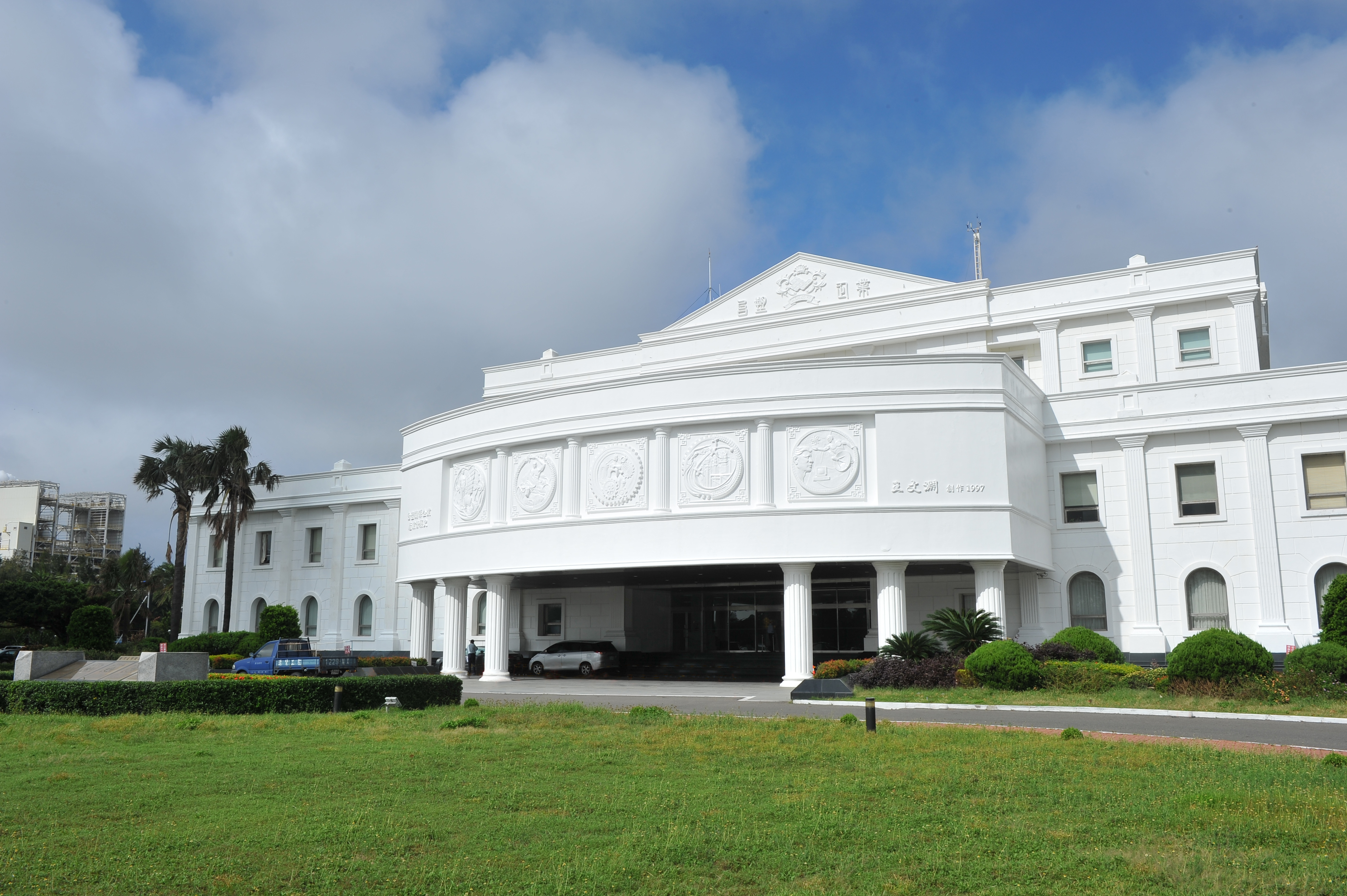 Administrative building, Formosa Plastics Group Mail-Liao Industrial Complex, Yunlin, Taiwan.